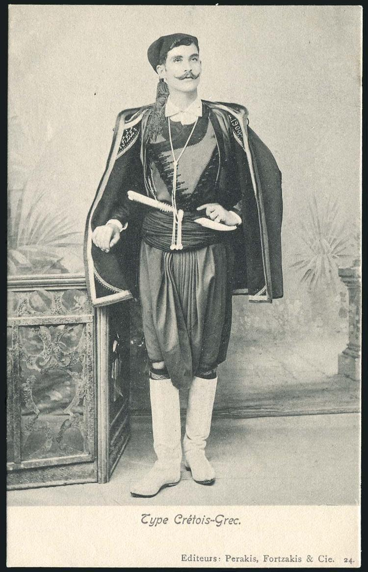 Cretan Greek in local Costume.